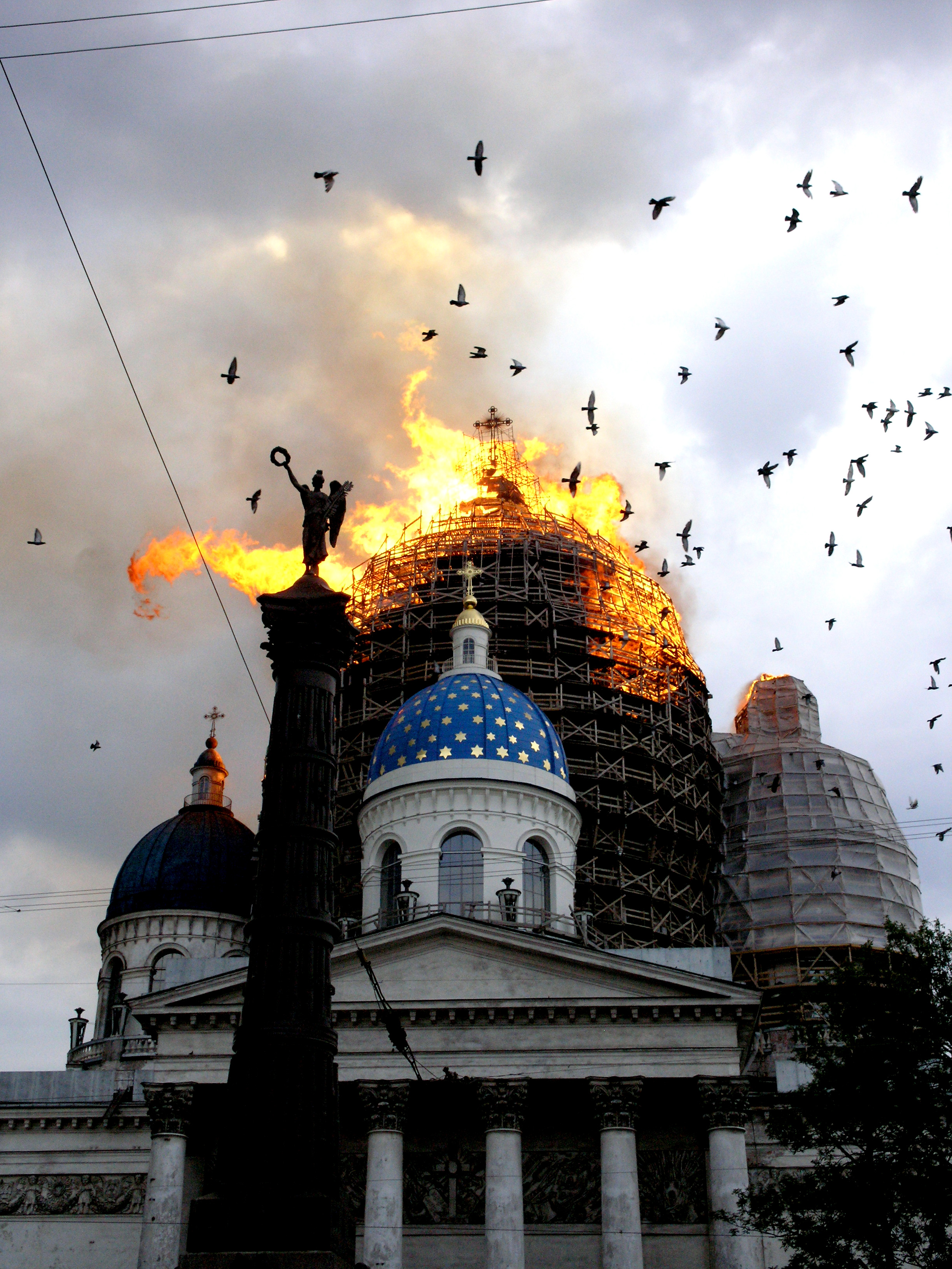 The Trinity Cathedral sometimes called the Troitsky Cathedral, in Saint Petersburg, Russia on fire.